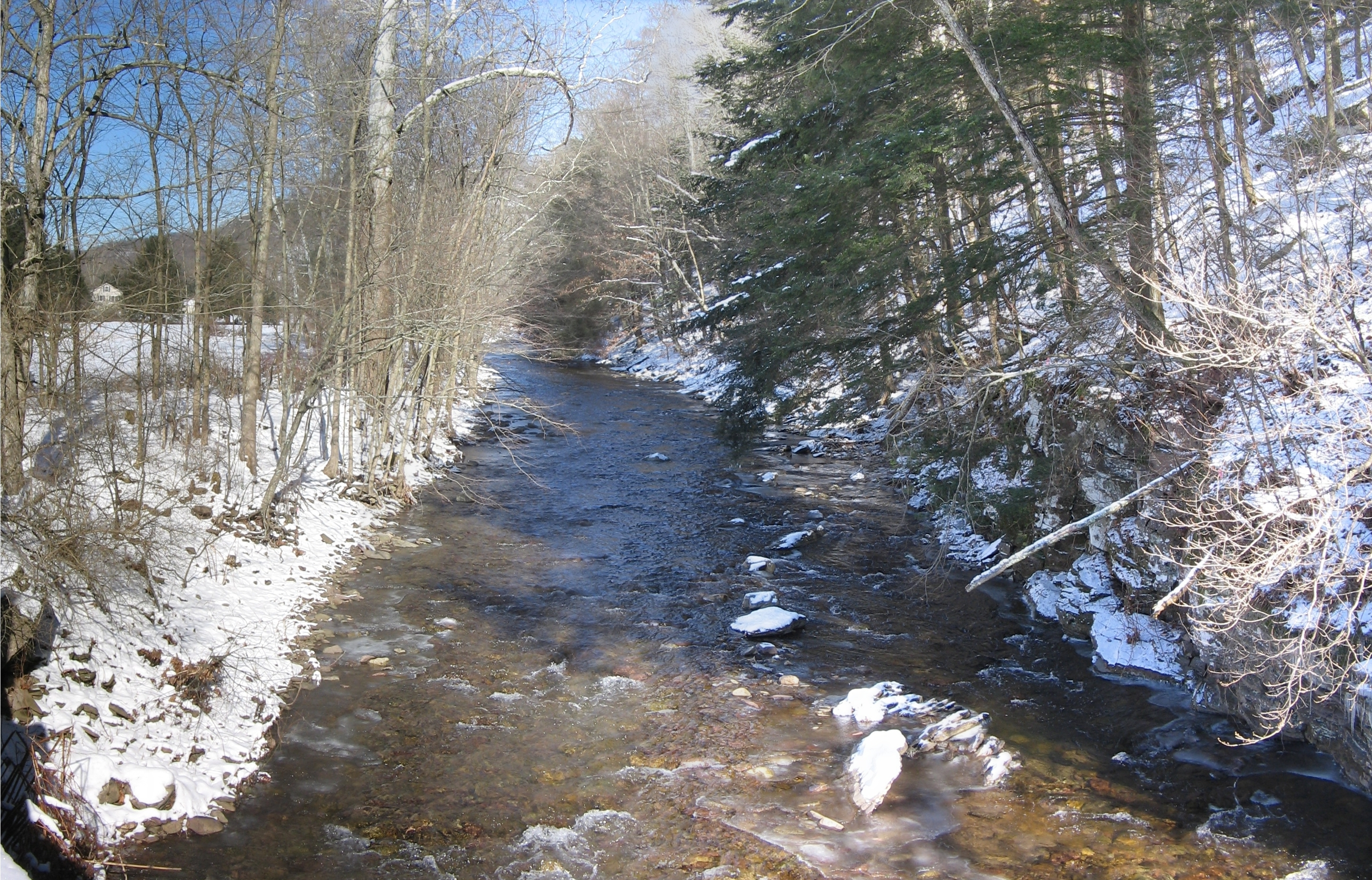 Plunketts Creek in the village of Proctor, in Plunketts Creek Township, Pennsylvania, United States, taken from Bridge No. 4.